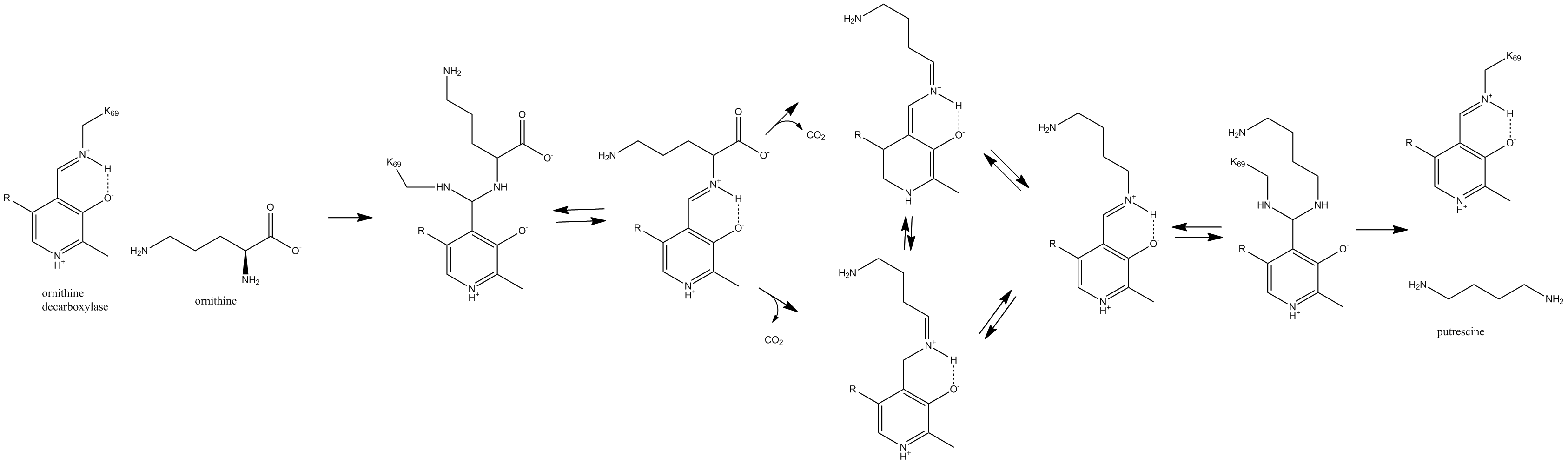 Hypothesized ornithine decarboylase mechanism. Created in ChemDraw. Based off Brooks and Phillips 1997 (PMID: 9398243)